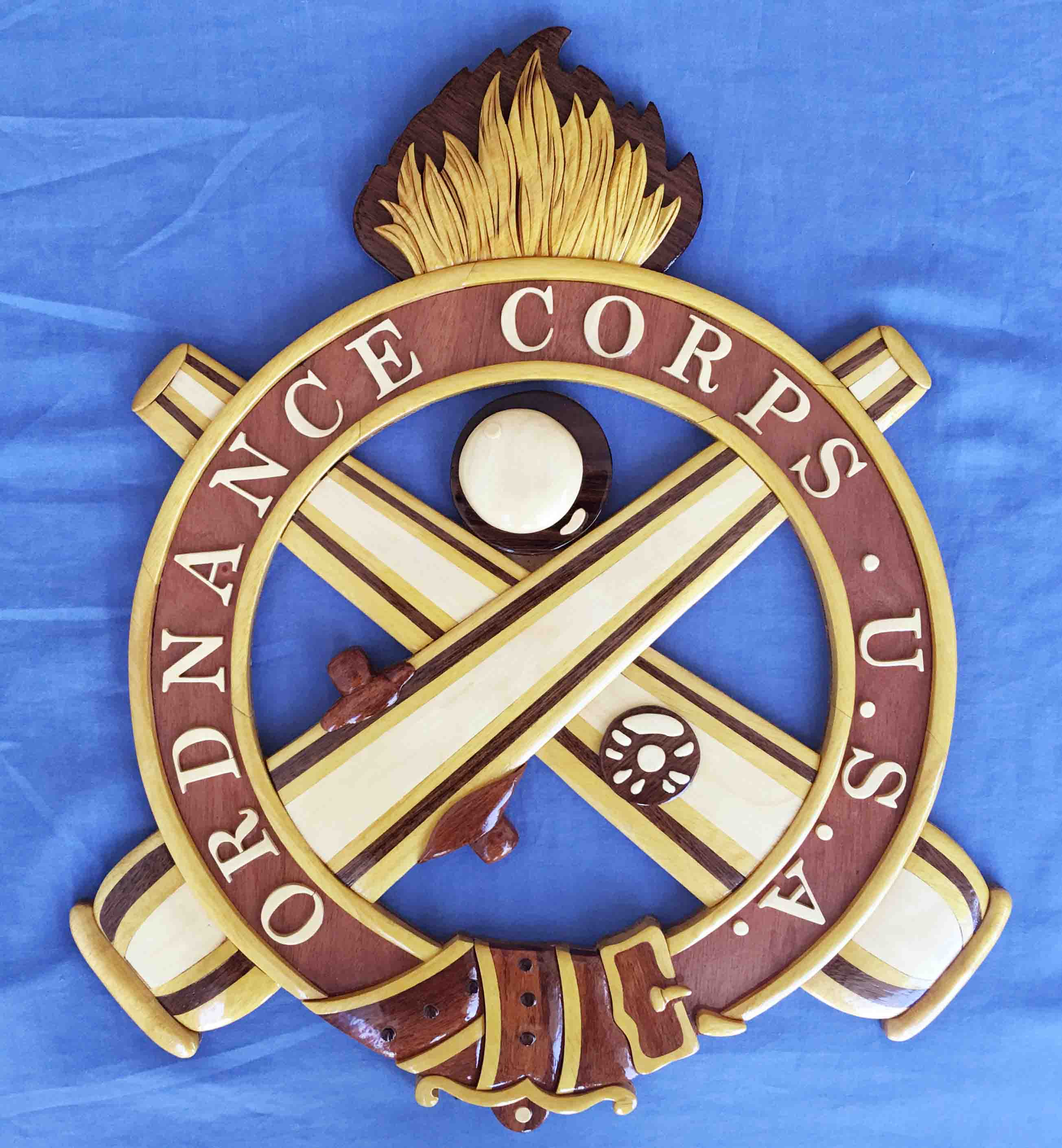 U.S. Ordnance Corps Regimental Corps Wall Plaque